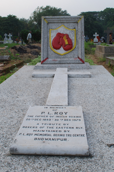 Grave of Paresh Lal Roy